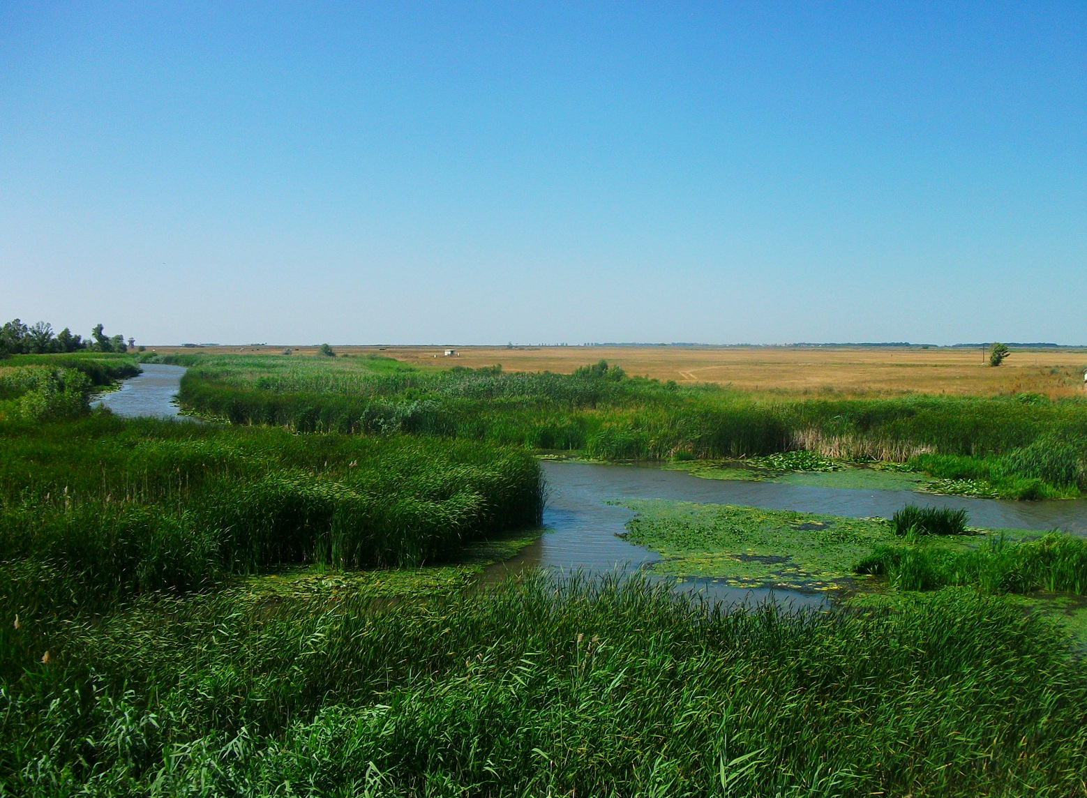 Hortobágy River in Hortobágy, Hungary